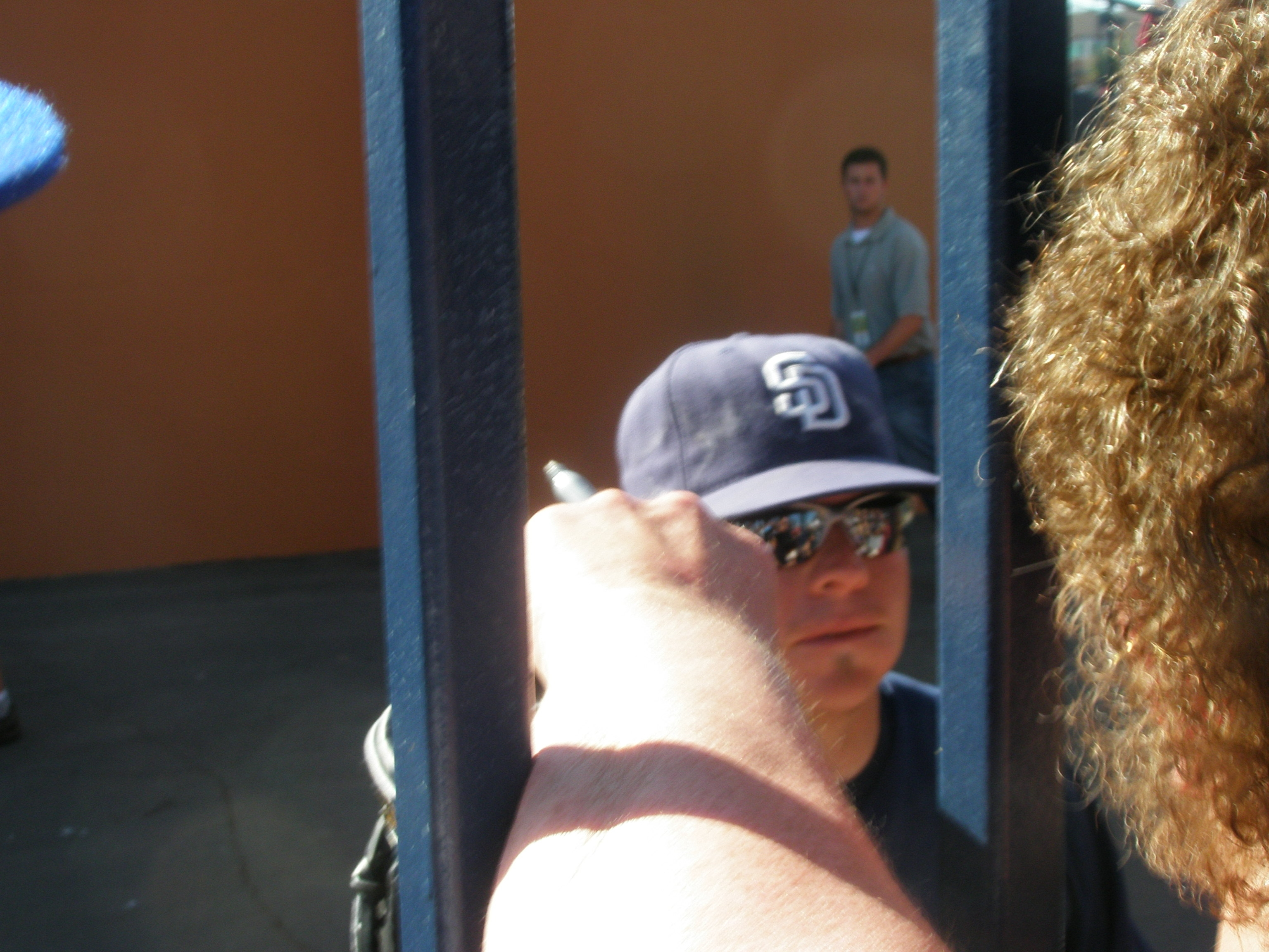 Paul McAnulty signing autographs for his fans. This image was taken by me in late March, 2008. 23:02, 2 April 2008 . . RobHC . . 3,072×2,304 (2.96 MB)